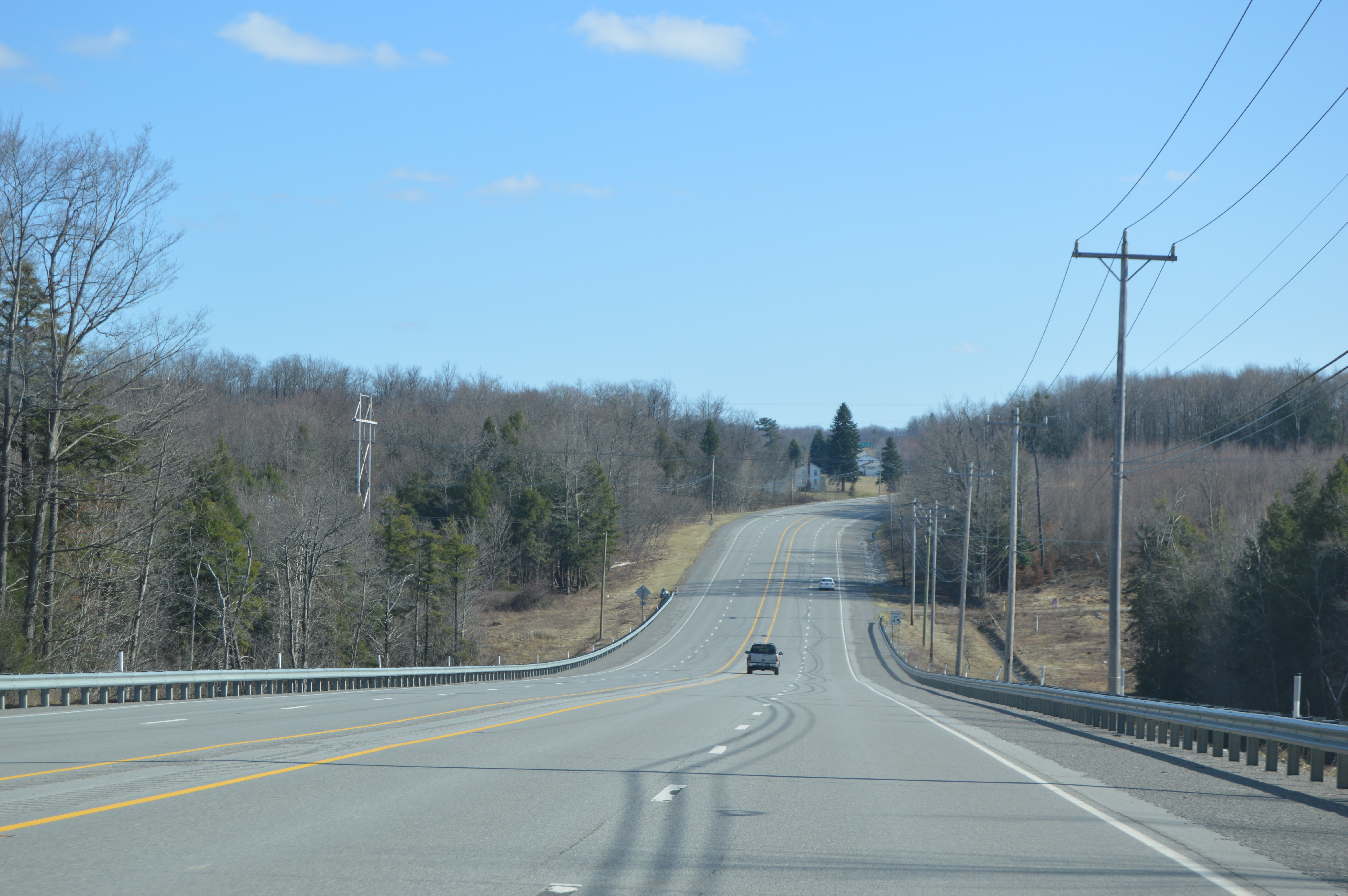 Looking south along Pennsylvania Route 255 south of St. Marys in Fox Township, Elk County, Pennsylvania, United States.